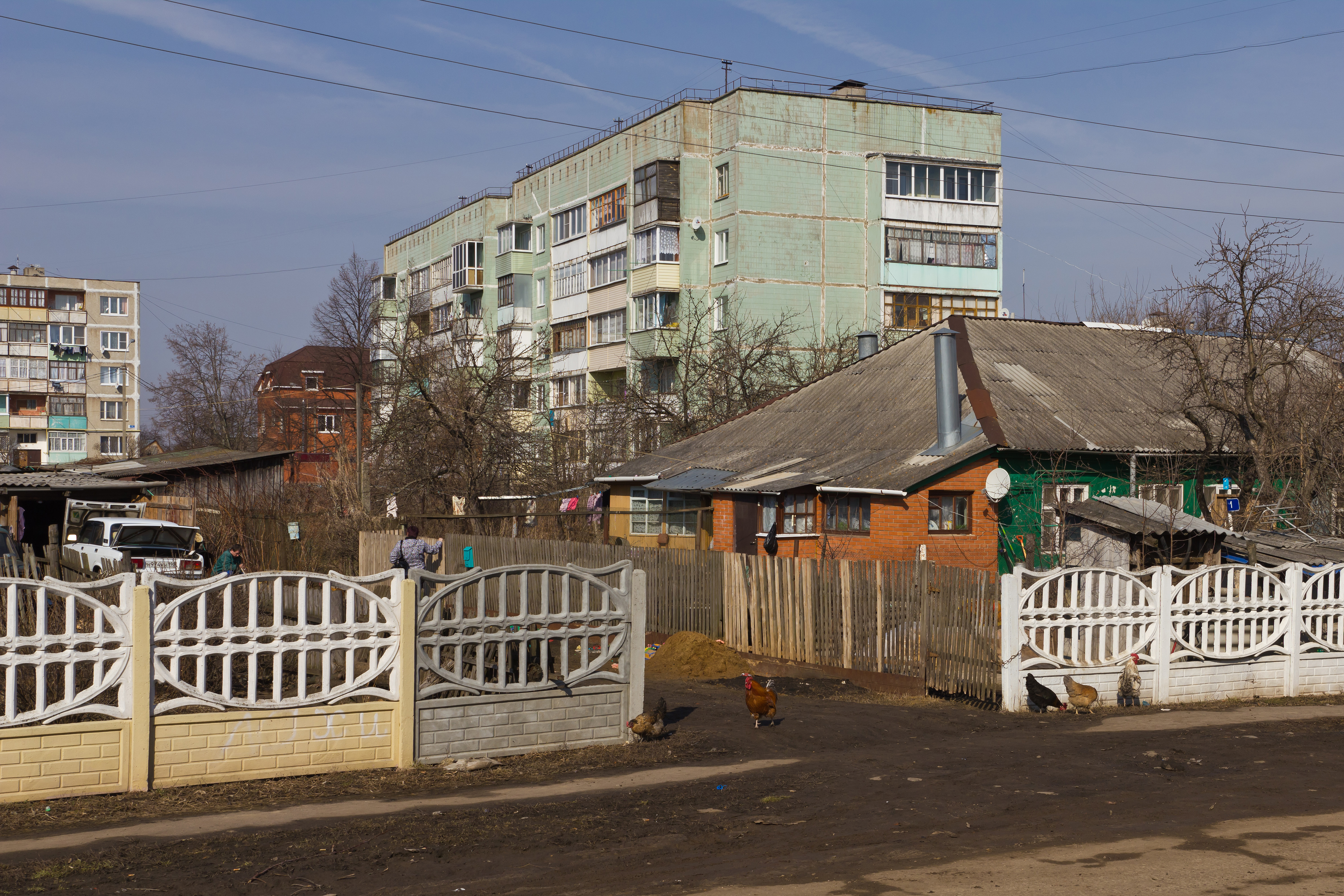 Residential buildings in Serebryanye Prudy, Moscow Oblast, Russia.